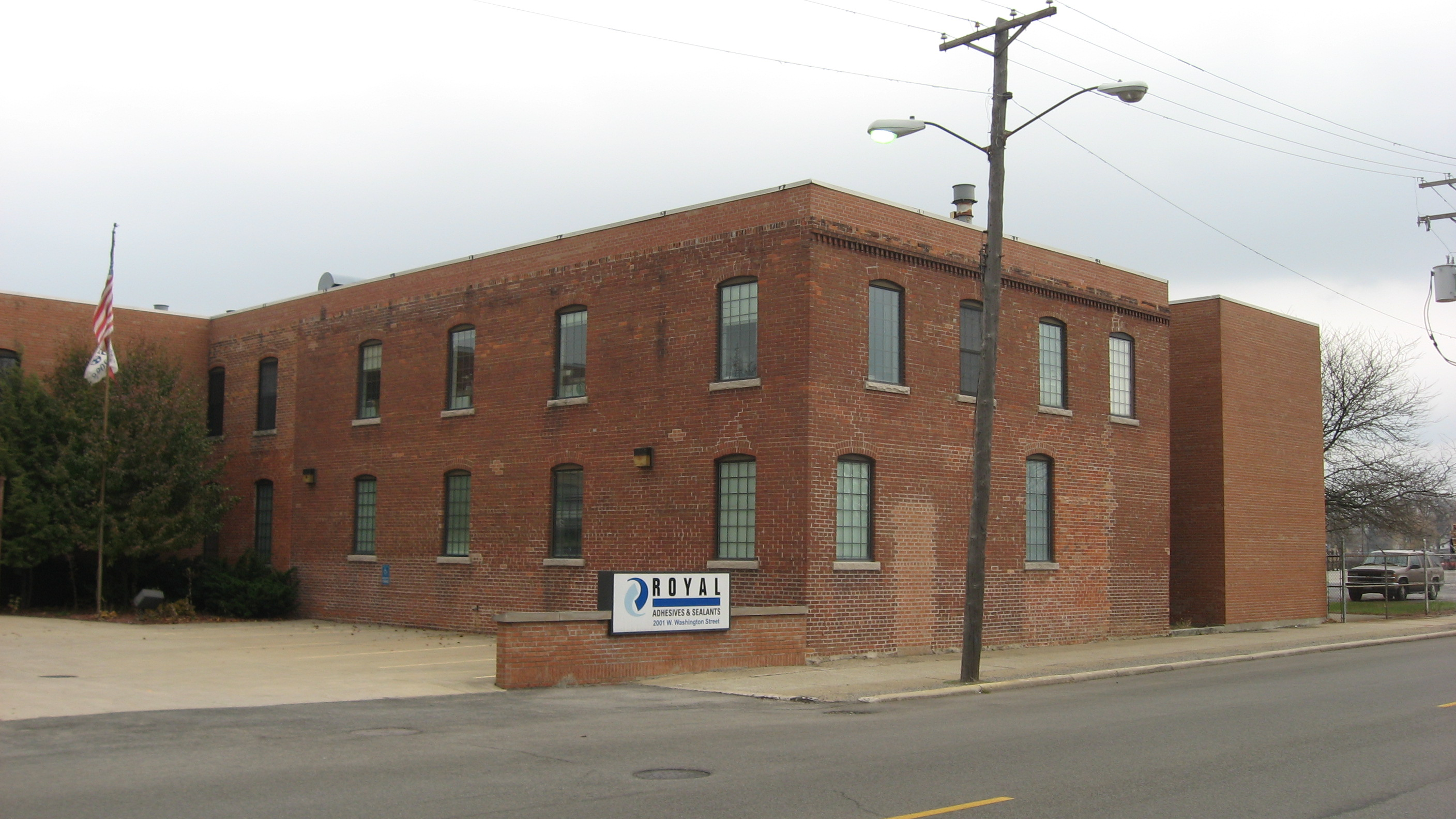 Front of the O'Brien Electric Priming Company, located at 2001 W. Washington Street in South Bend, Indiana, United States. Built in 1882, it is listed on the National Register of Historic Places.